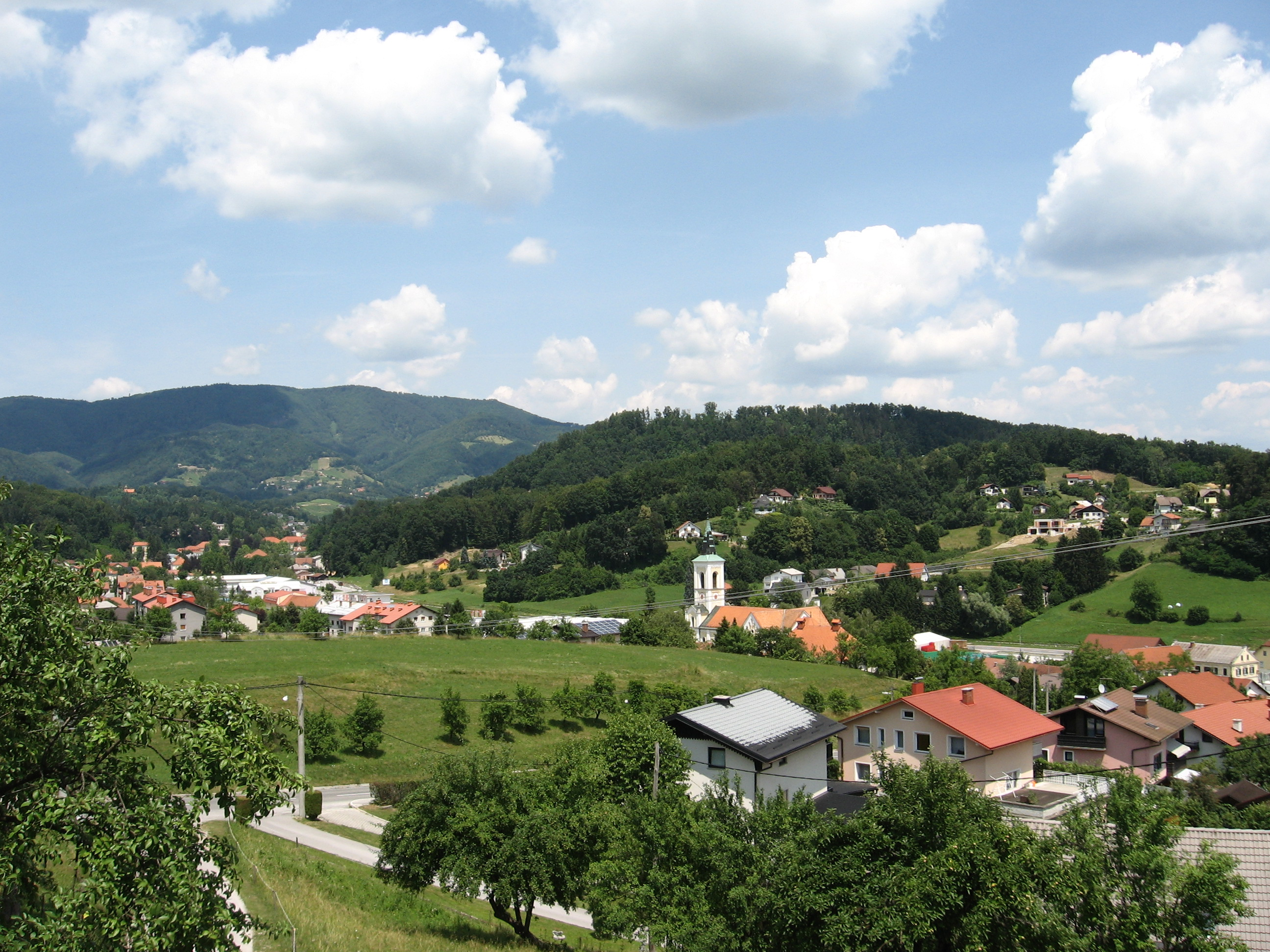 Rogaska Slatina from the hayrack on Brestovska cesta.